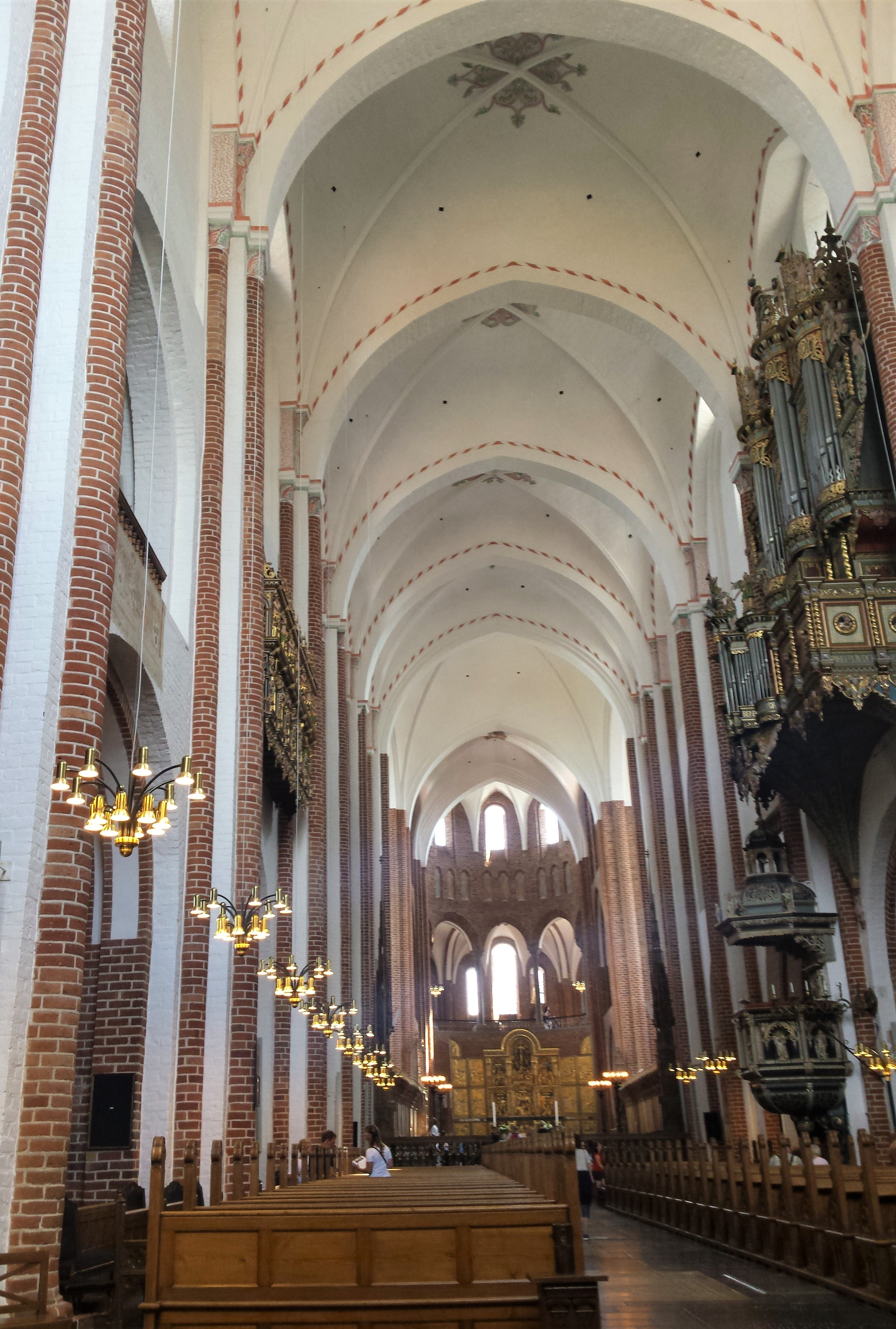 The interior of Roskilde Cathedral